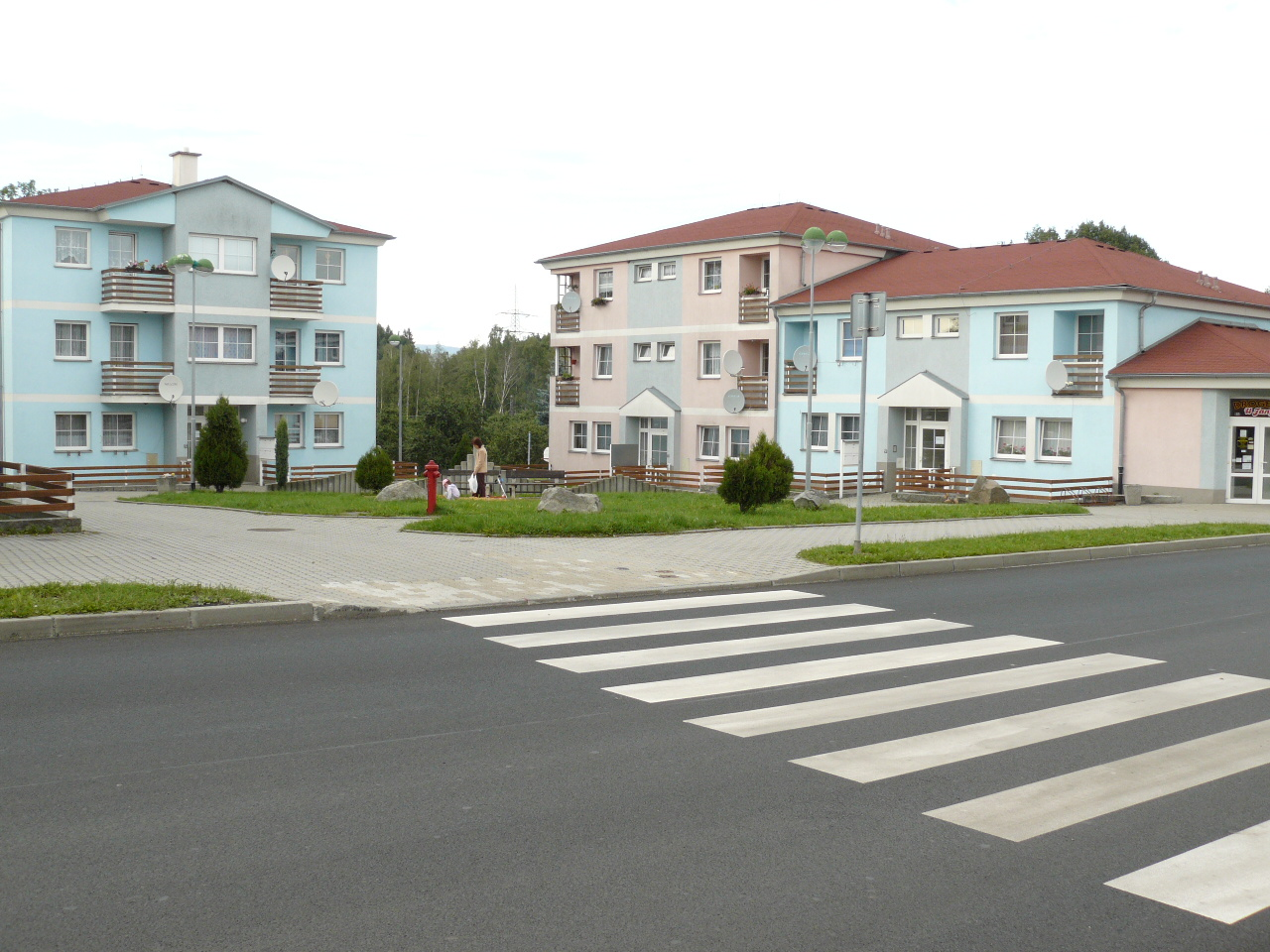 This photograph was taken within the scope of the second year of the 'Czech Municipalities Photographs' grant.